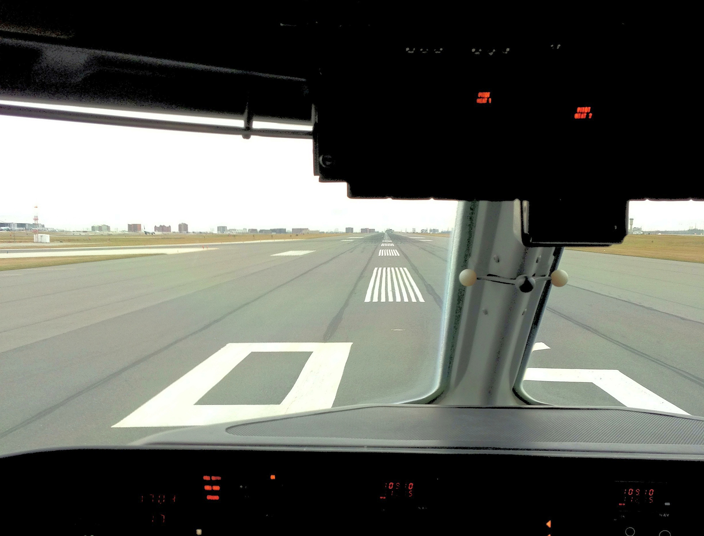 Waiting for clearance to take off. We're probably the only plane in the world to get to the runway of a major airport without a flight plan...